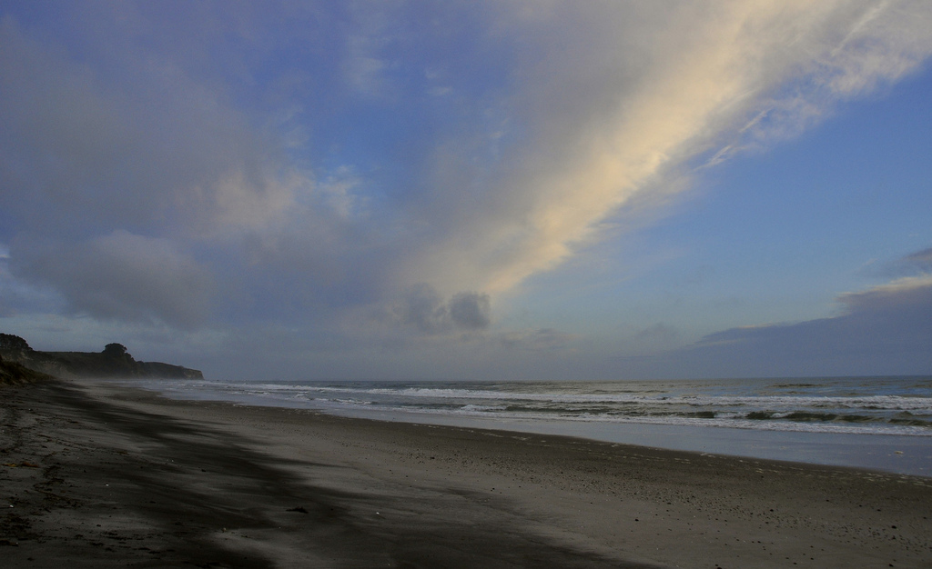 This is what is under threat from the grounding and oil spill from the Rena on Astrolabe Reef.